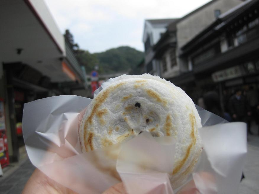 Umegaemochi sold in Dazaifu